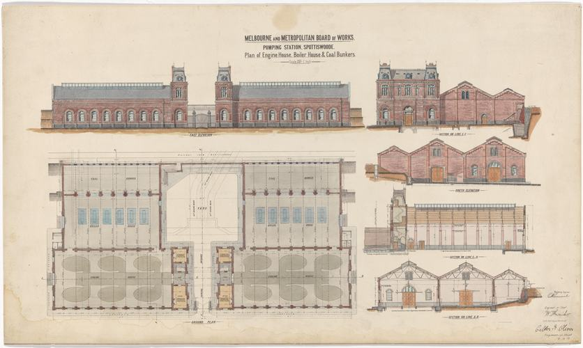 Architectural drawing of the MMBW spotswood sewerage pumping station, Melbourne, Victoria